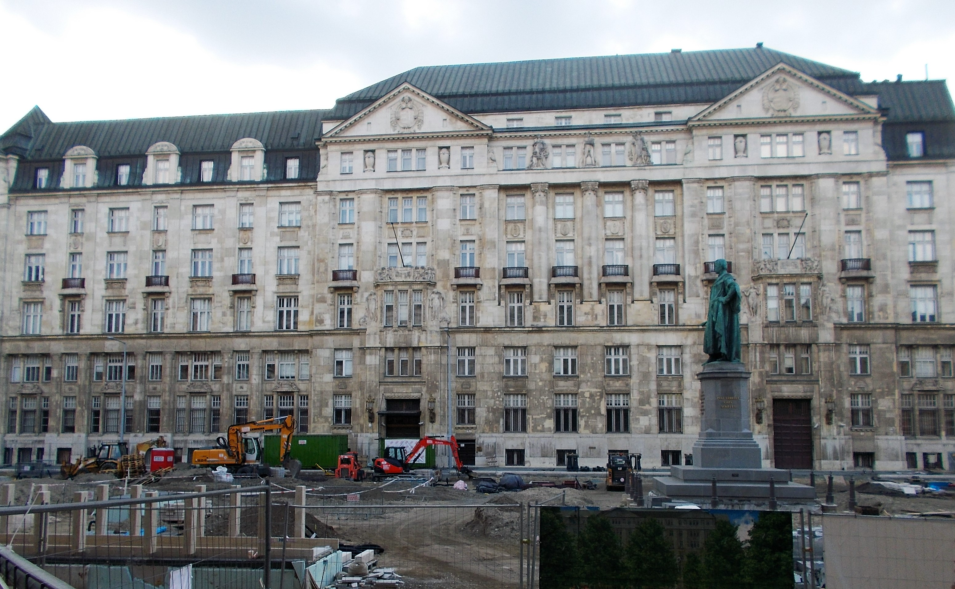 Square under reconstruction. Building of the Ministry of Finance (former bank building planned by Ignác Alpár (1913) Listed building - József nádor tér, Lipótváros neighborhood, District V of Budapest.